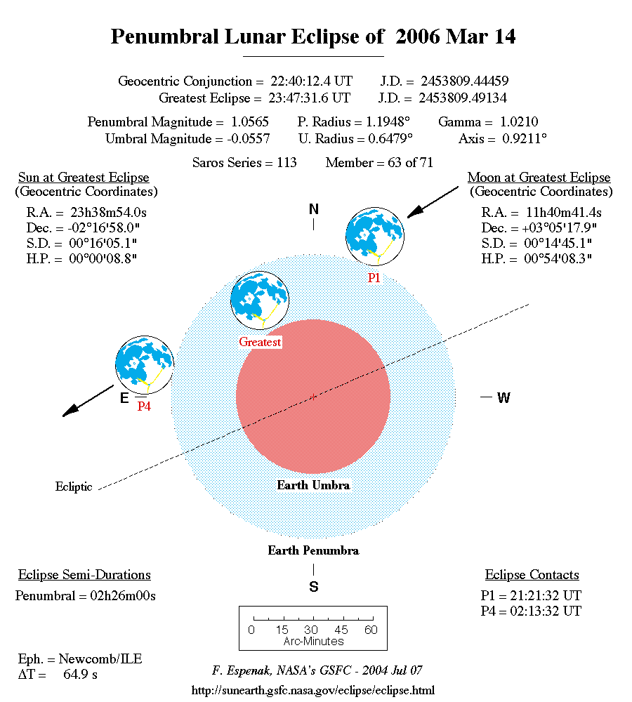 Sketch of the 2006-03-14 lunar eclipse.